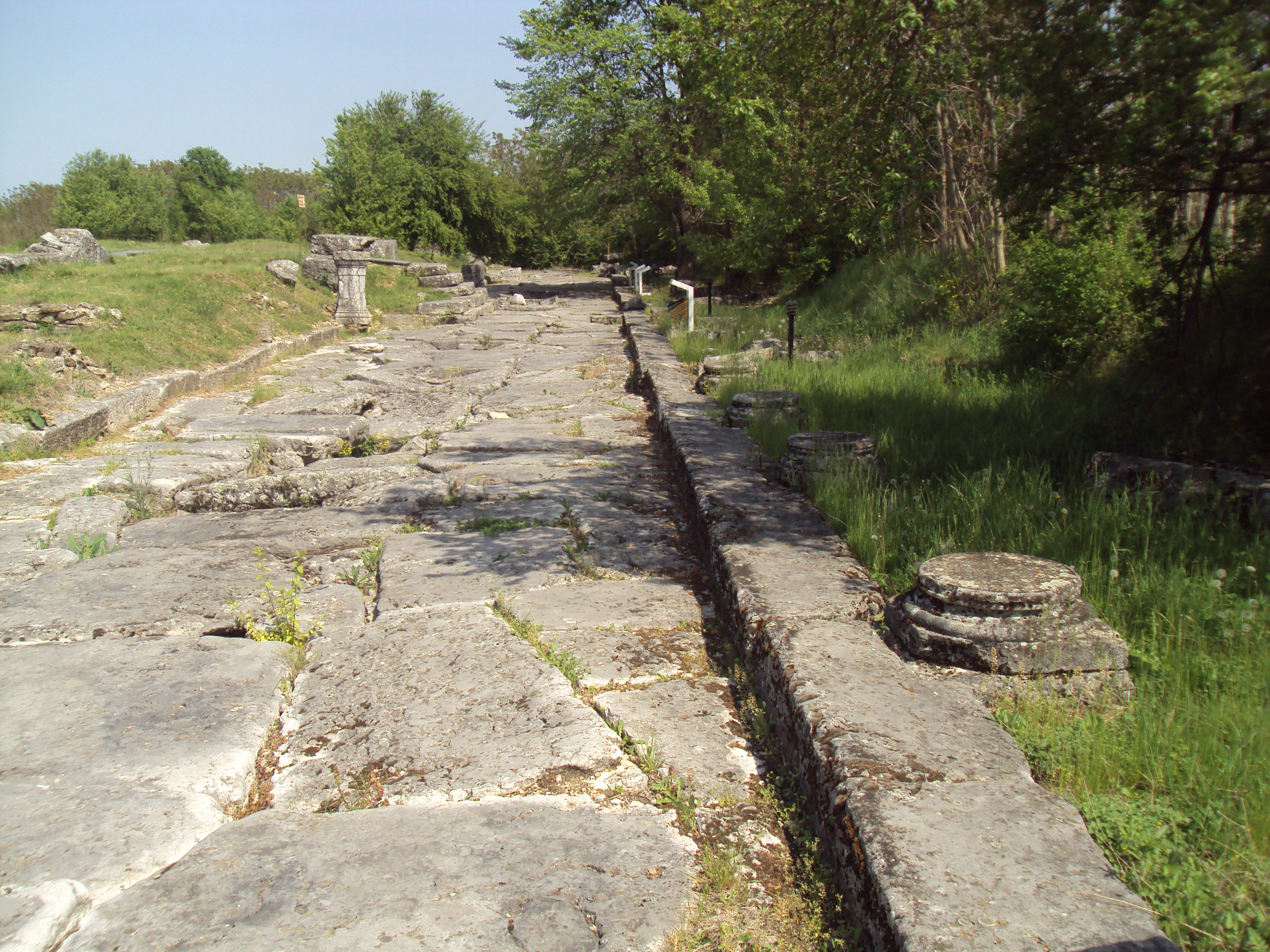 The ancient city of Nicopolis ad Istrum